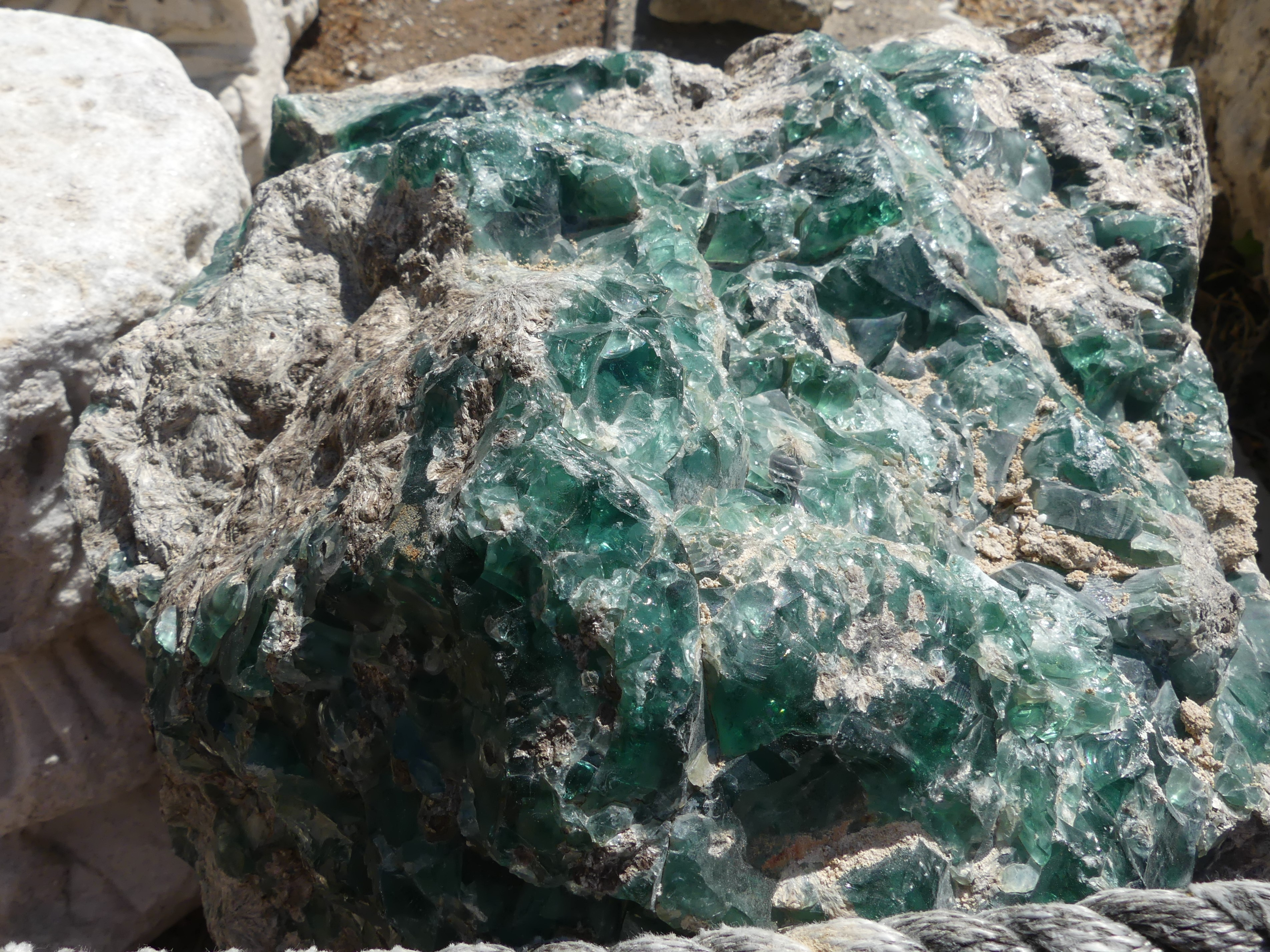 Ancient glass balls from furncases in the Al Mina / City Site of Tyre/Sour, South Lebanon, dating back to the 6th and 7th century Byzantine period